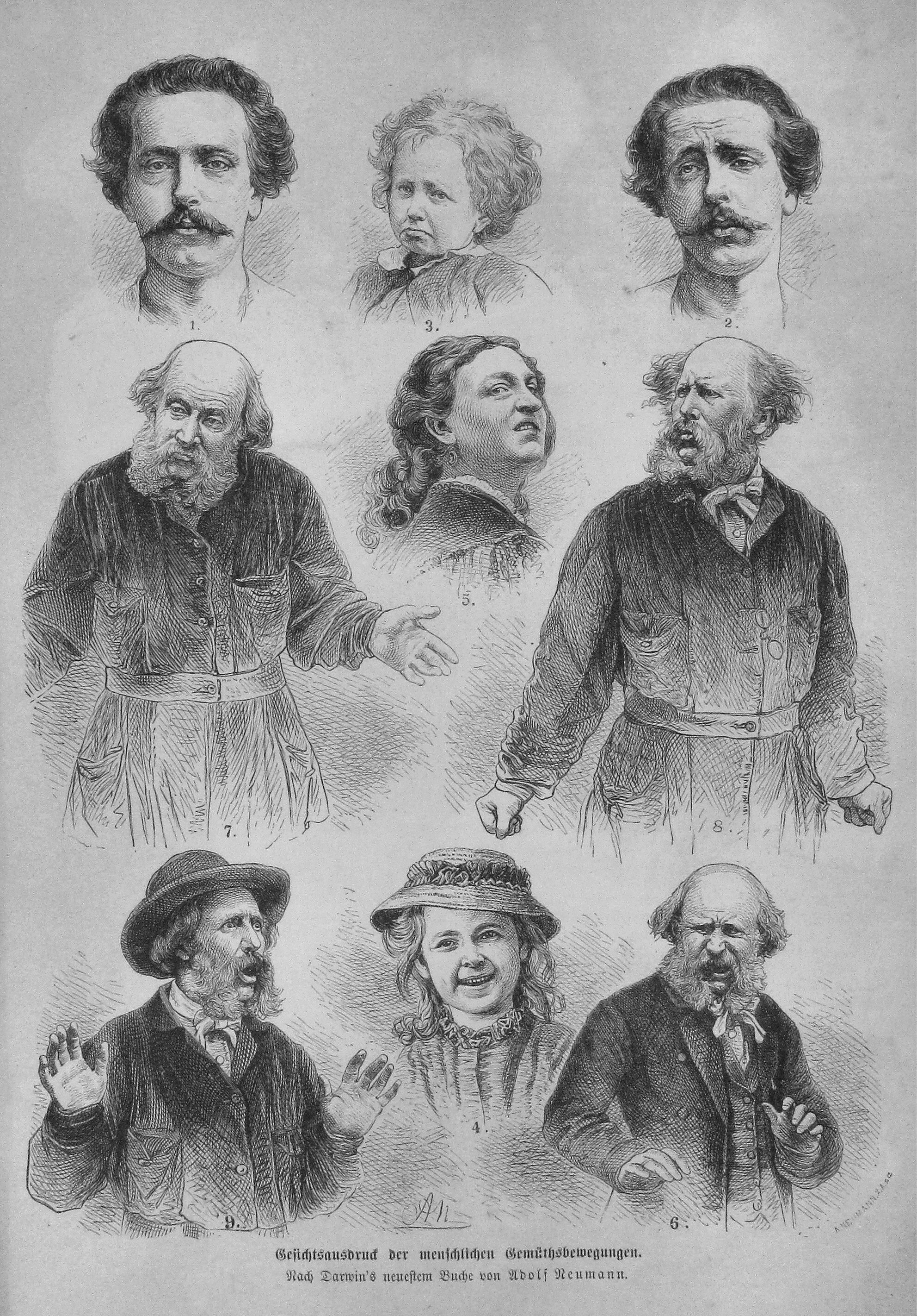 caption: "Gesichtsausdruck der menschlichen Gemüthsbewegungen. Nach Darwin’s neuestem Buche von Adolf Neumann."